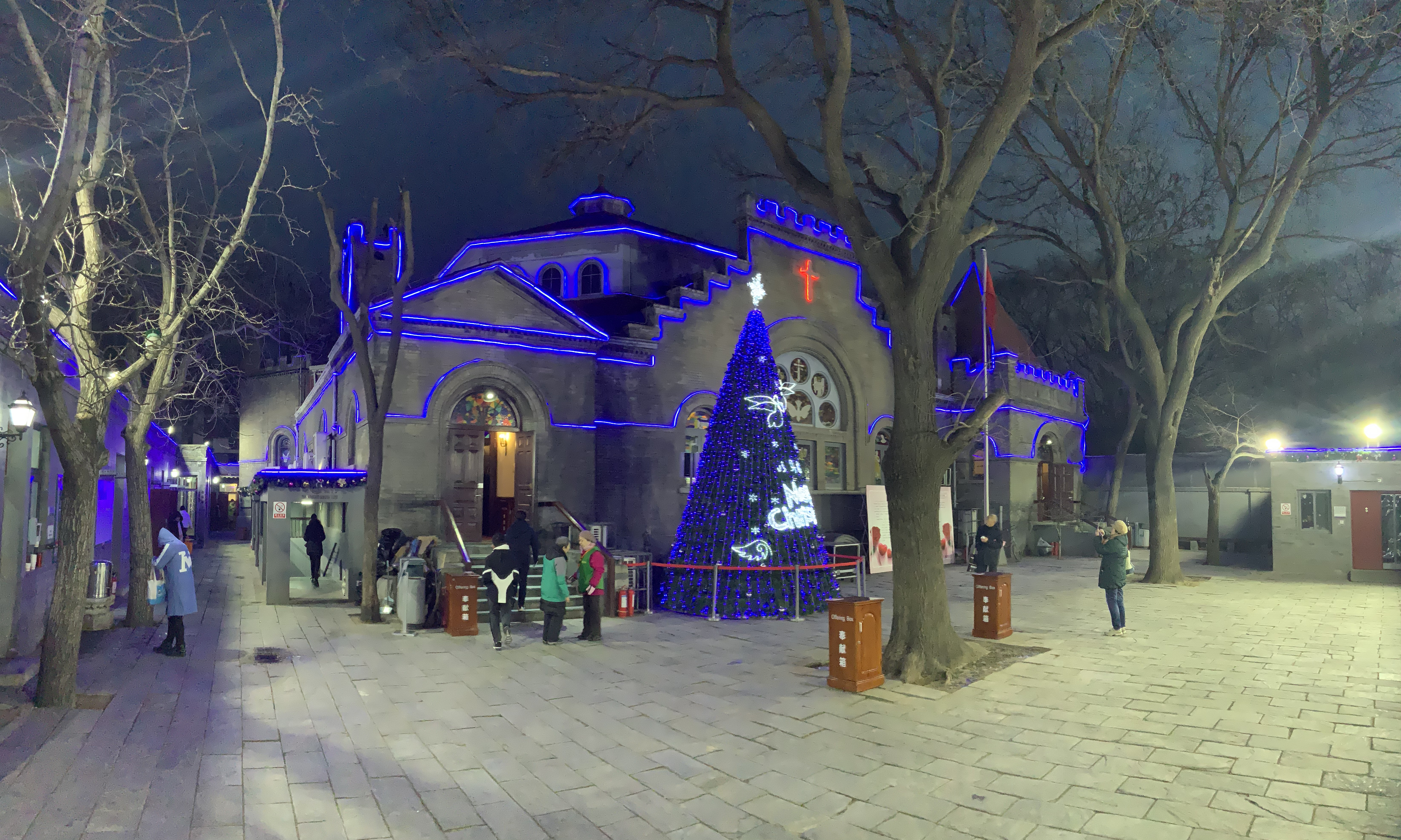 Sunday worship in Asbury Church on the Sunday before Christmas in 2019 This is the first prayer that day in 7:00 am.